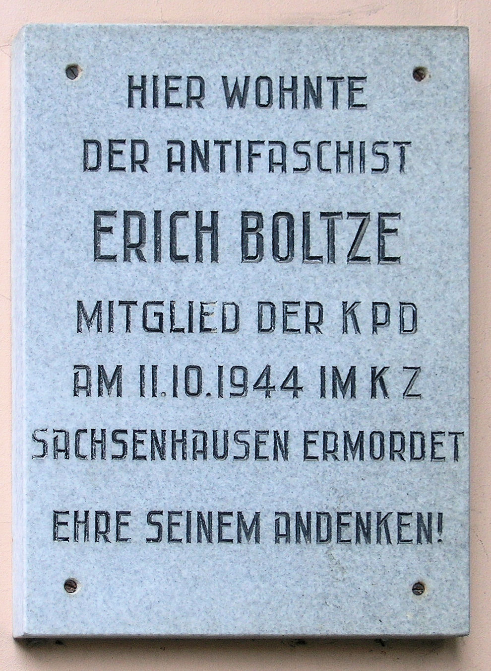 Memorial plaque, Erich Boltze, Pistoriusstraße 28, Berlin-Weißensee, Germany